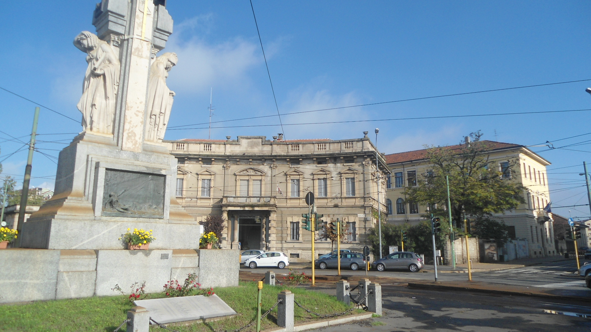 Partial view of Piazzale Santorre di Santarosa with Musocco War memorial and N° 10 and of Via De Rossi with primary school at N° 2